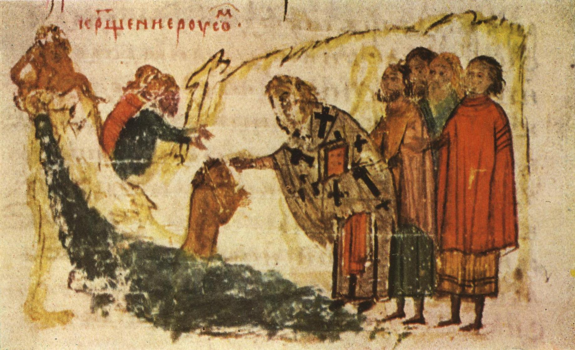 Miniature 58 from the Constantine Manasses Chronicle, 14 century: Christianization of the Rus